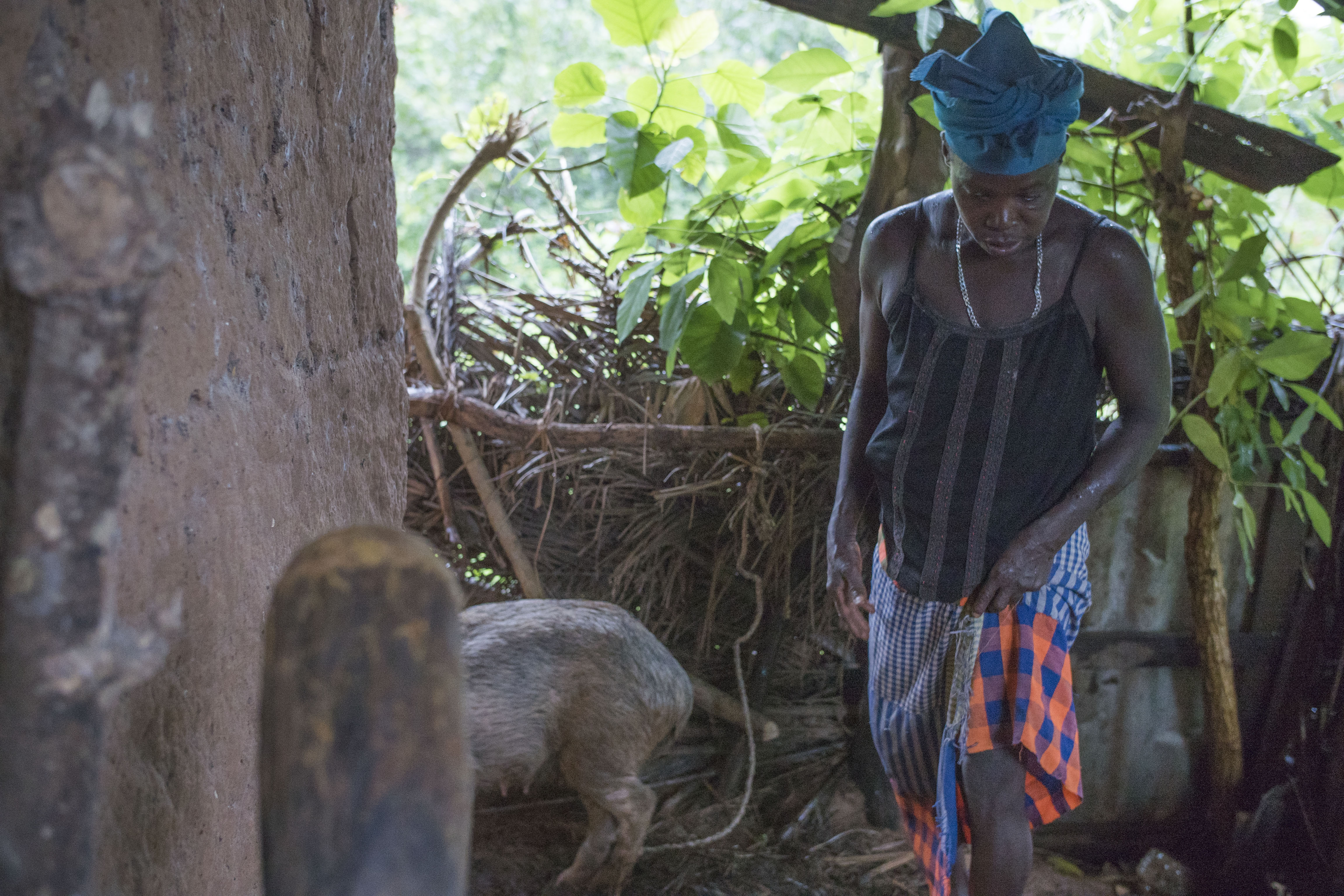 Linda Every morning Linda gets up and cleans the house, breeds animals and other jobs. She lives on a small island, en guinè bissau. This is an image of "African people at work" from Guinea-Bissau